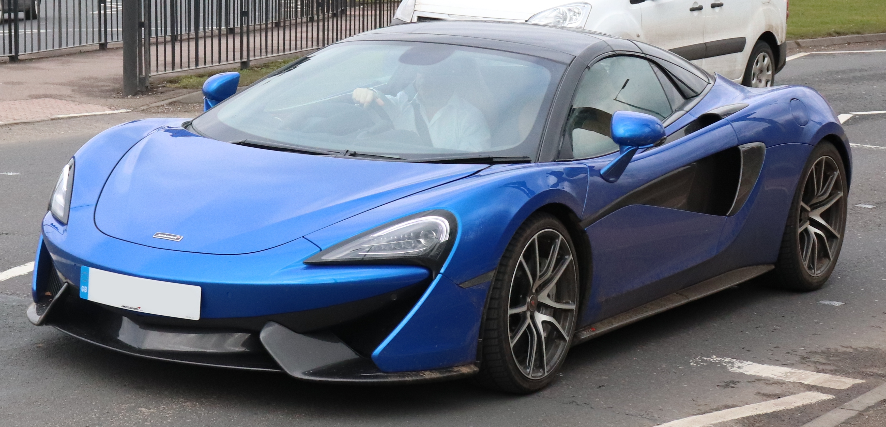 2017 McLaren 570S Spider 3.8 Taken in Leamington Spa